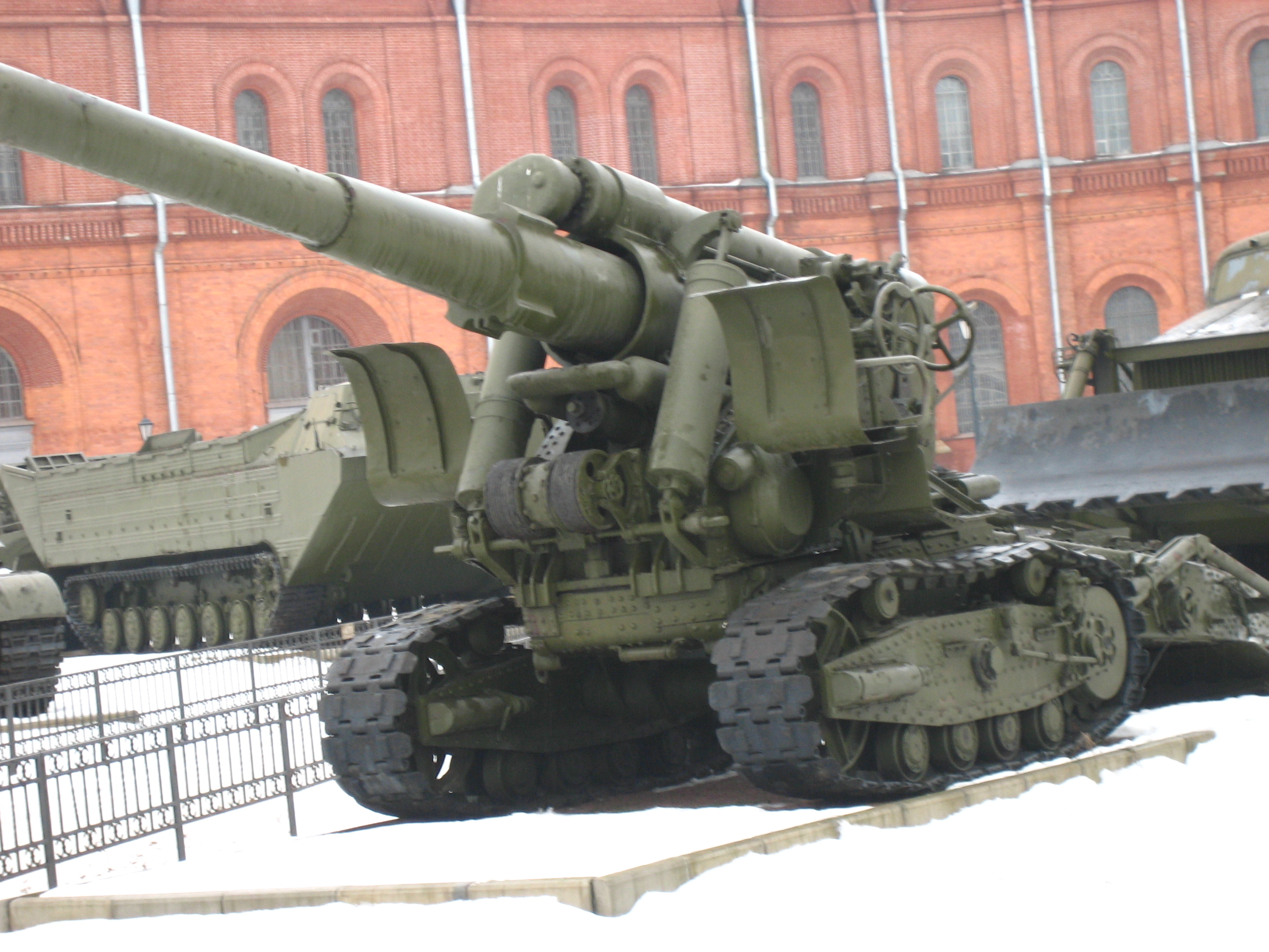 Soviet 152mm Br-2 Mark 1935 gun, displayed in Saint Petersburg Artillery Museum. Photo taken on 3 Marсh, 2007. Source: Photo by me, User:Saiga20K.